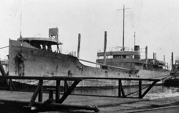 From U.S. Navy public domain Photo #: NH 101780 SS Hatteras (U.S. Freighter, 1917) Probably photographed in 1919, after World War I Navy service as USS Hatteras (ID # 2142). The ship appears to be loaded, with worn paintwork and an empty gun platform forward. The original print is in National Archives' Record Group 19-LCM. U.S. Naval Historical Center Photograph.